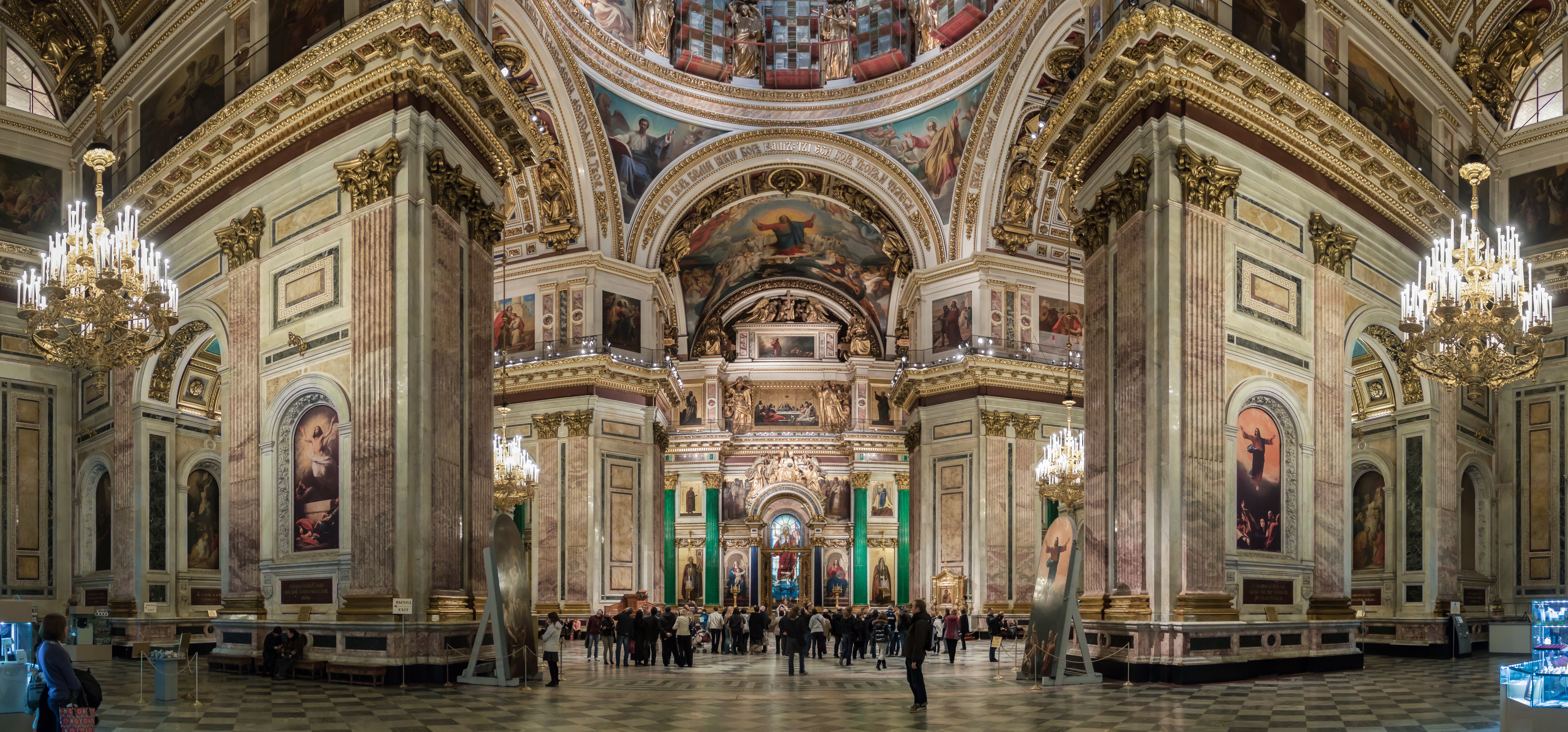 The panoramic photo of the interior of Saint Isaac's Cathedral, St. Petersburg.